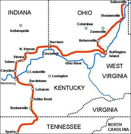 Original map created in Microsoft PowerPoint June 12, 2006, by Civil War author Scott Mingus who grants fair usage to Wikipedia. Category:Battle maps of the American Civil War